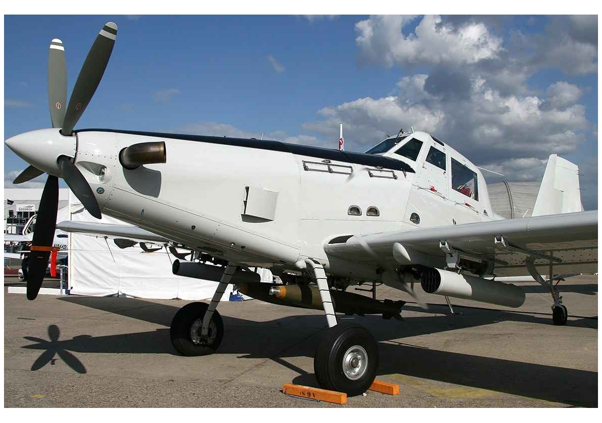 The AirTractor AT-802U Counter Insurgency (COIN) Aircraft on display at the Paris Air Show.